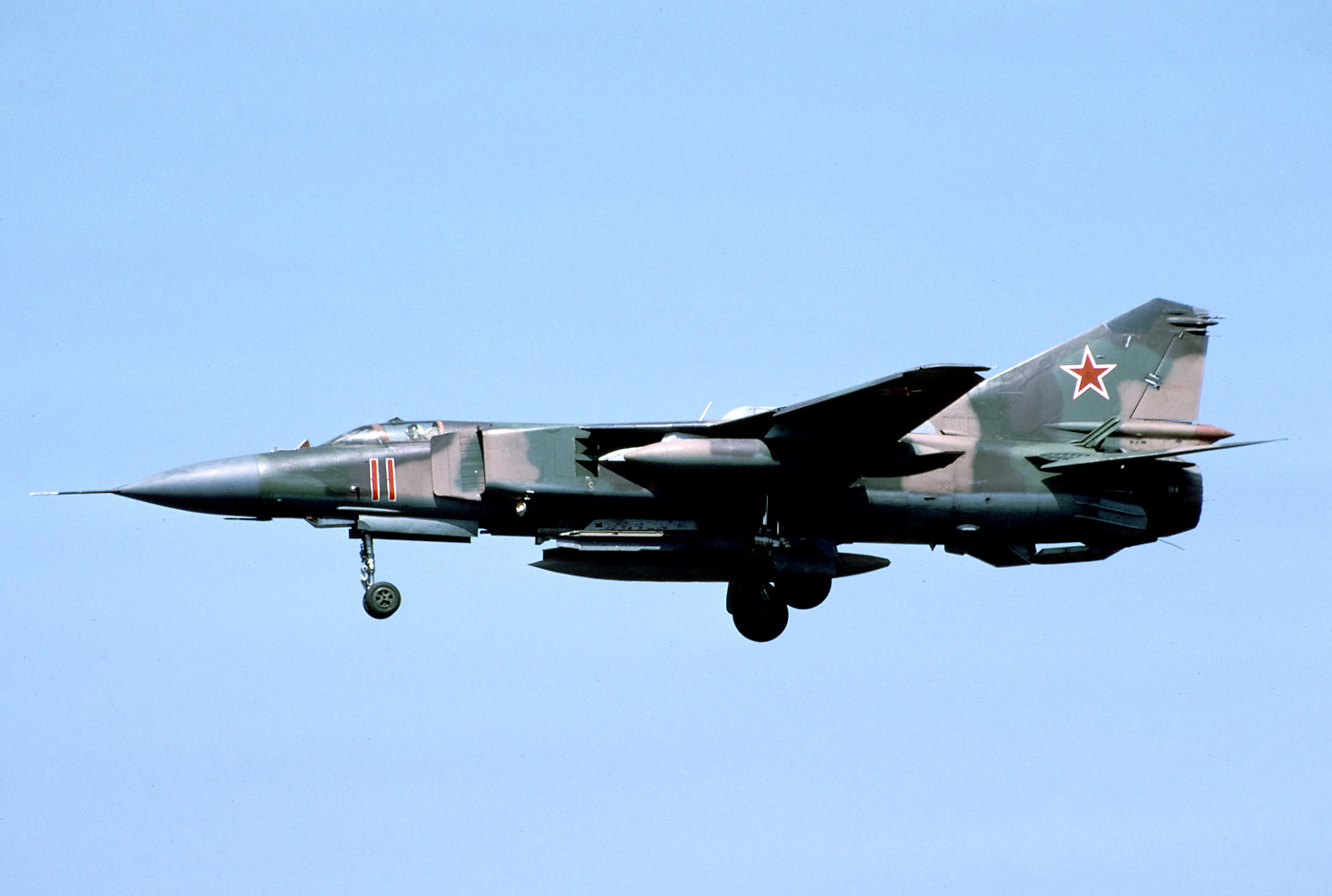 MiG-23MLD 'Flogger-K' landing at Altes Lager (also known as Jüterbog) on 5 May 1992. The 833 IAP (Fighter Aviation Regiment) was the last German regiment to operate MiG-23s in the air defence role. They returned to Russia on 13 May 1992. In the week preceding the withdrawal all the Floggers flew with two wing tanks, instead of a centreline tank.